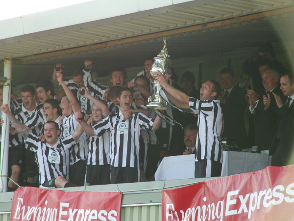 Fraserburgh F.C. lifting the 2012-13 Aberdeenshire Cup after beating Formartiine United F.C. on penalties at Victoria Park, Buckie